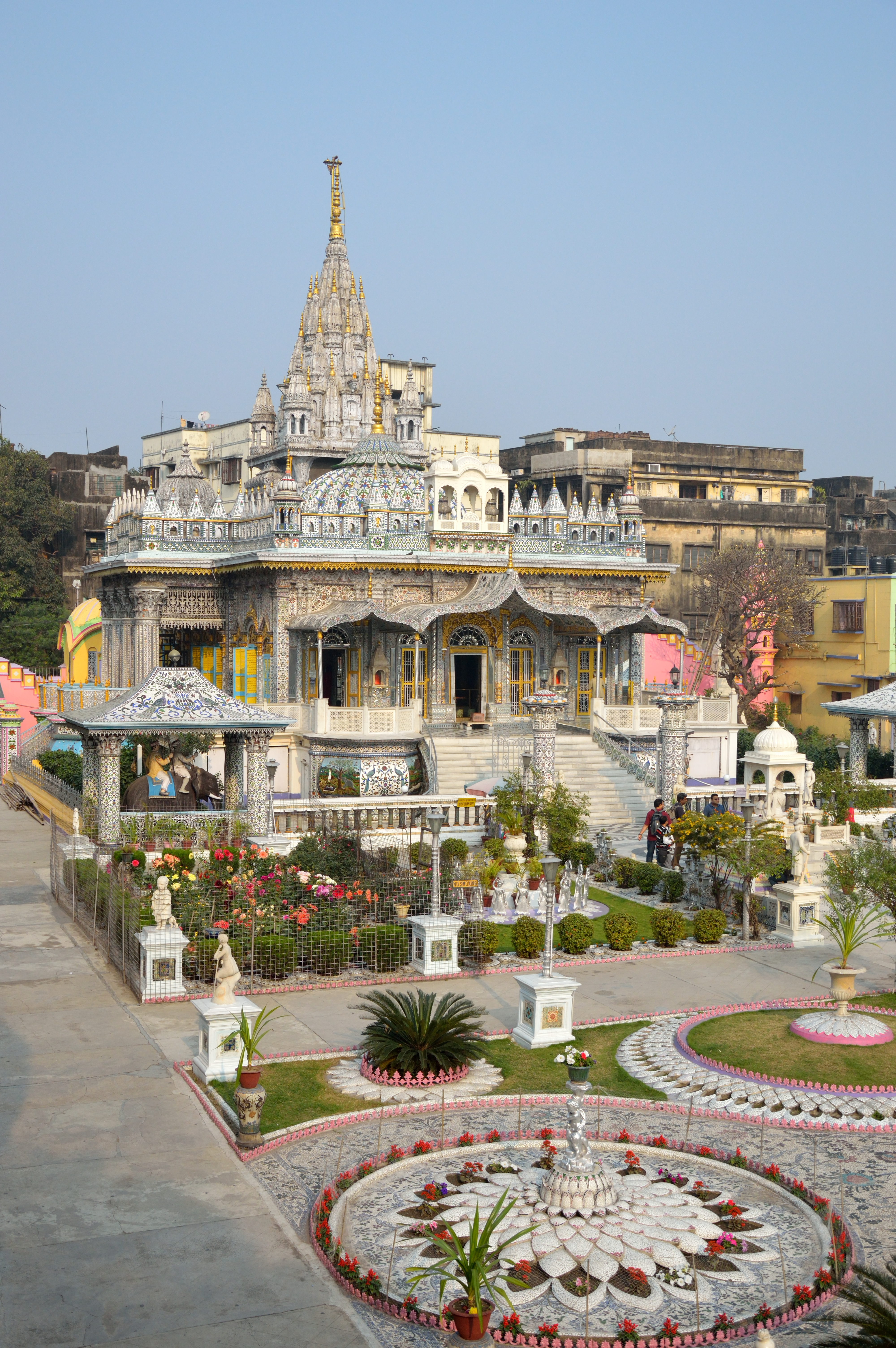 This photograph has been taken during the 'Wikipedia/Wikimedia Photowalk' event for the 'Wikipedia Takes Kolkata III' campaign on 23 February 2014, in the Gouribari area, northern part of Kolkata and uploaded during the 'Wiki Loves Monuments 2014' from India.